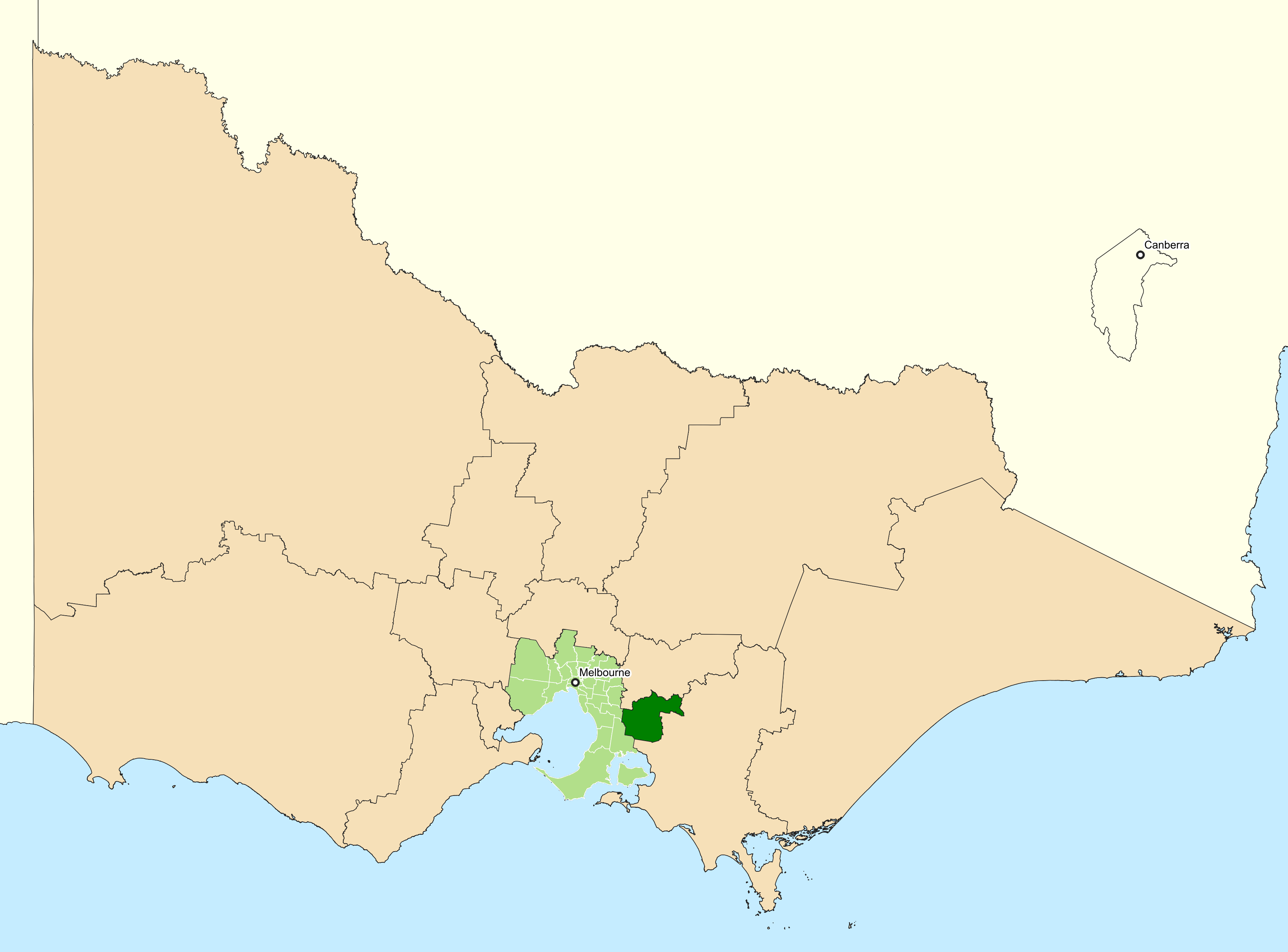 Location of the Australian federal electoral division of La Trobe (dark green) in Victoria as of the 2019 Australian federal election. Incorporates or developed using Administrative Boundaries ©PSMA Australia Limited licensed by the Commonwealth of Australia under Creative Commons Attribution 4.0 International licence (CC BY 4.0).